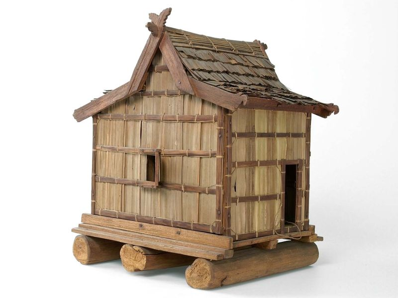 Model of house with shop annexe